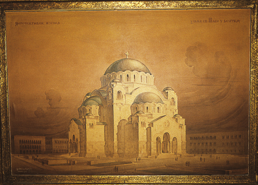 Sv Sava 1931 after Nestorovic/Deroko